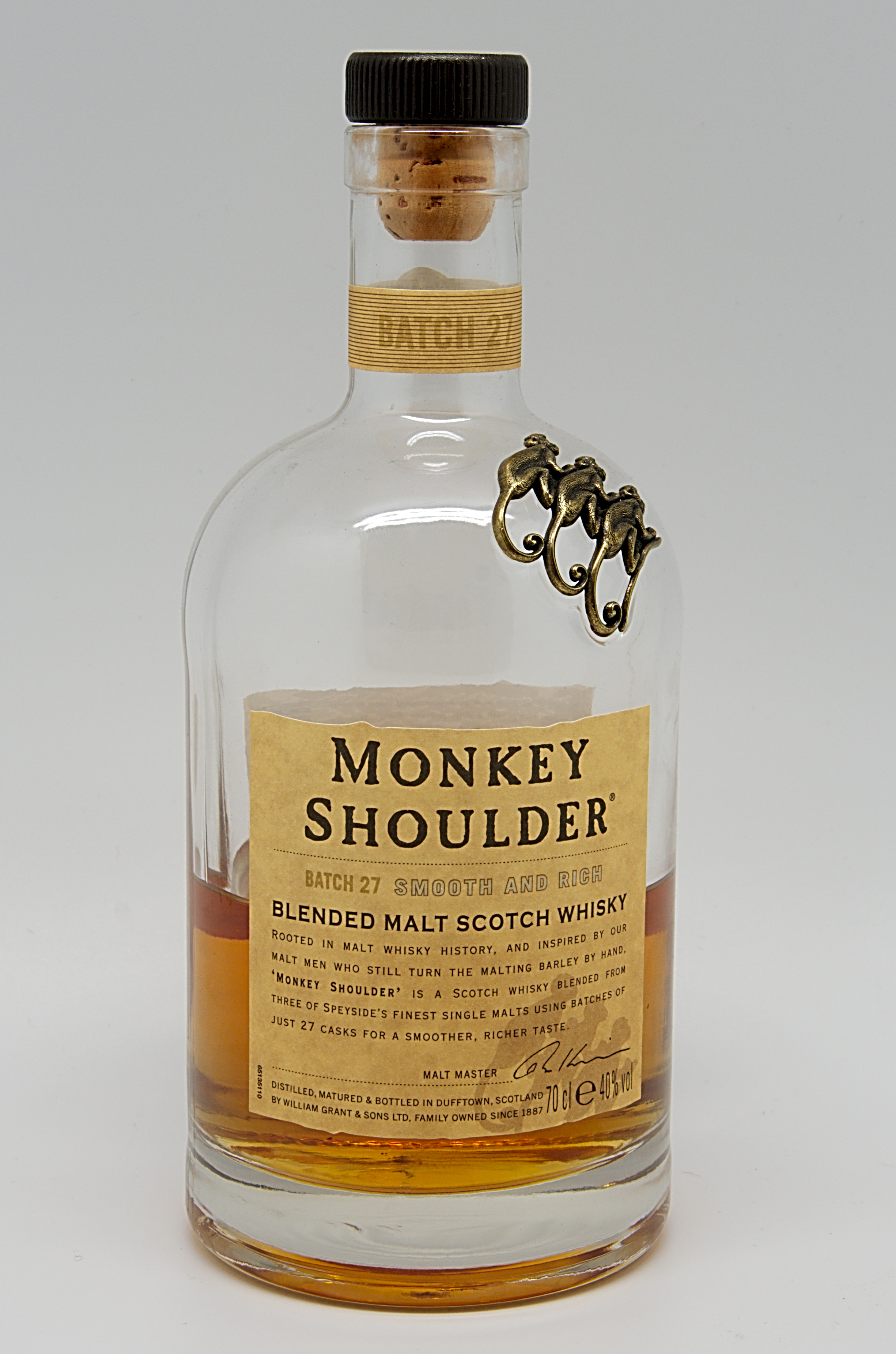 Monkey Shoulder scotch bottle